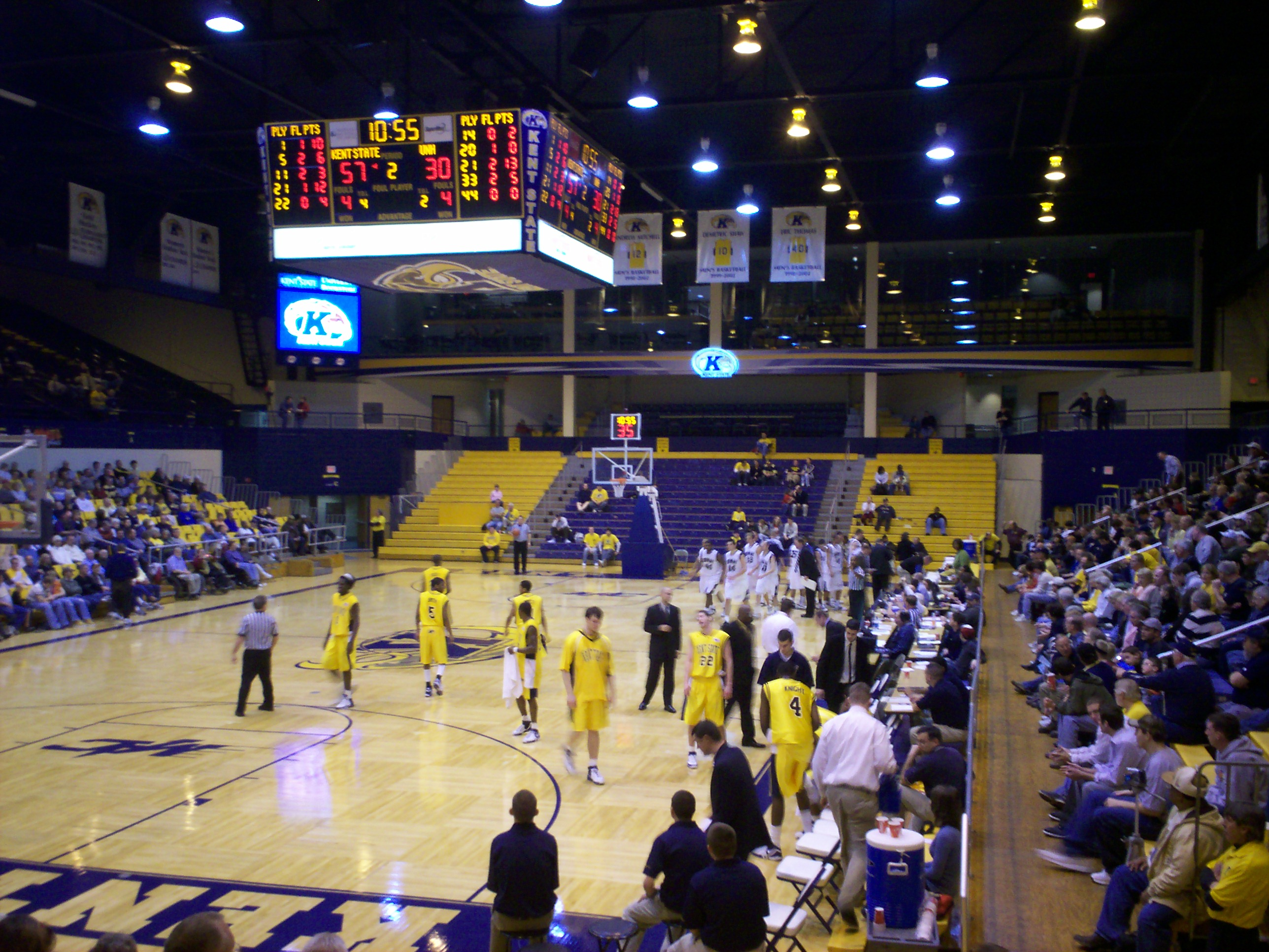 Inside the Memorial Athletic and Covocation Center main gym at Kent State University in Kent, Ohio. Originally uploaded to English Wikipedia 14 January 2007.